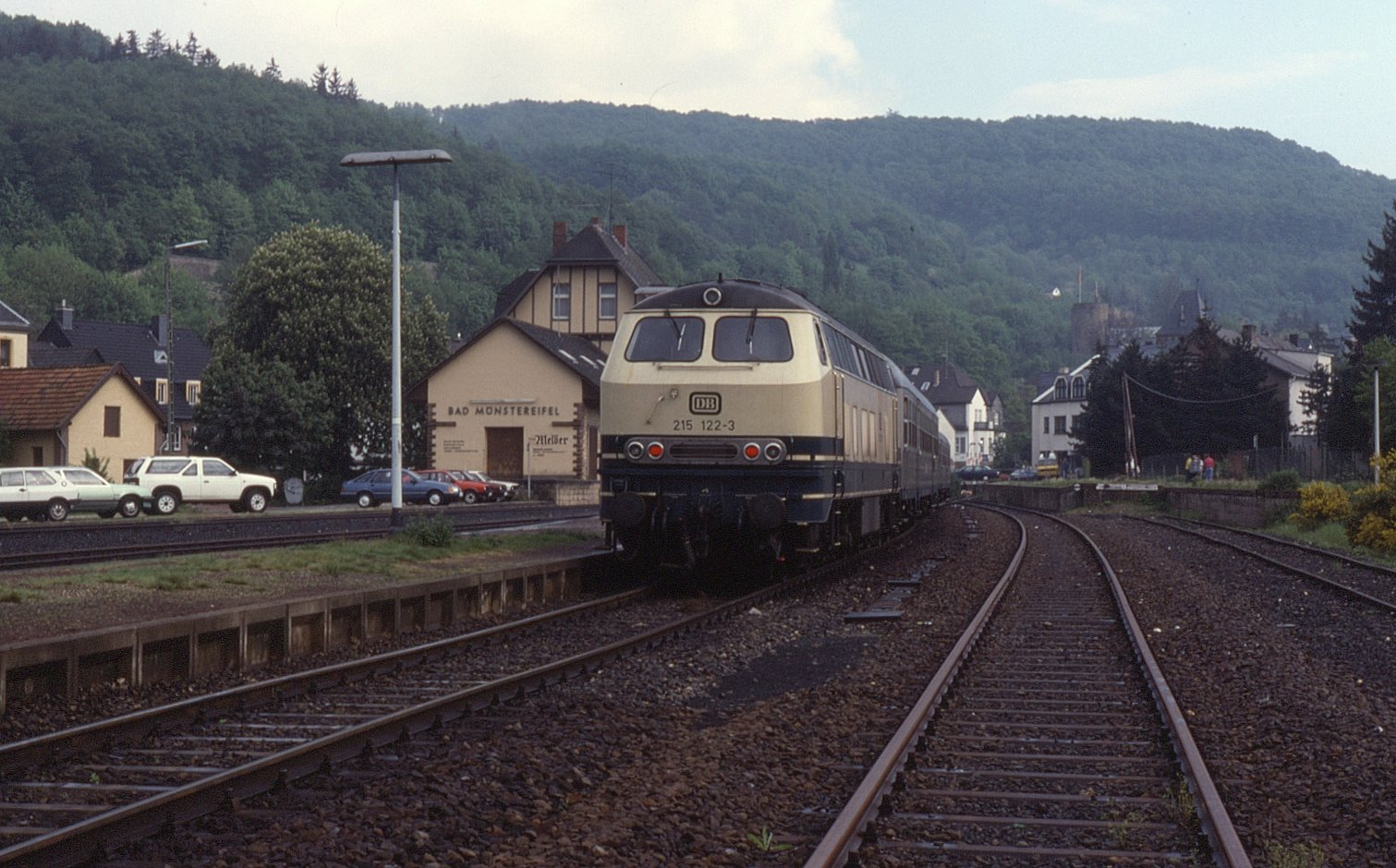 Train 7830 with 215.122 on a push-pull set working. 18:33 Bad Münstereifel to Euskirchen is seen at the start of its journey on 9 May 1990.